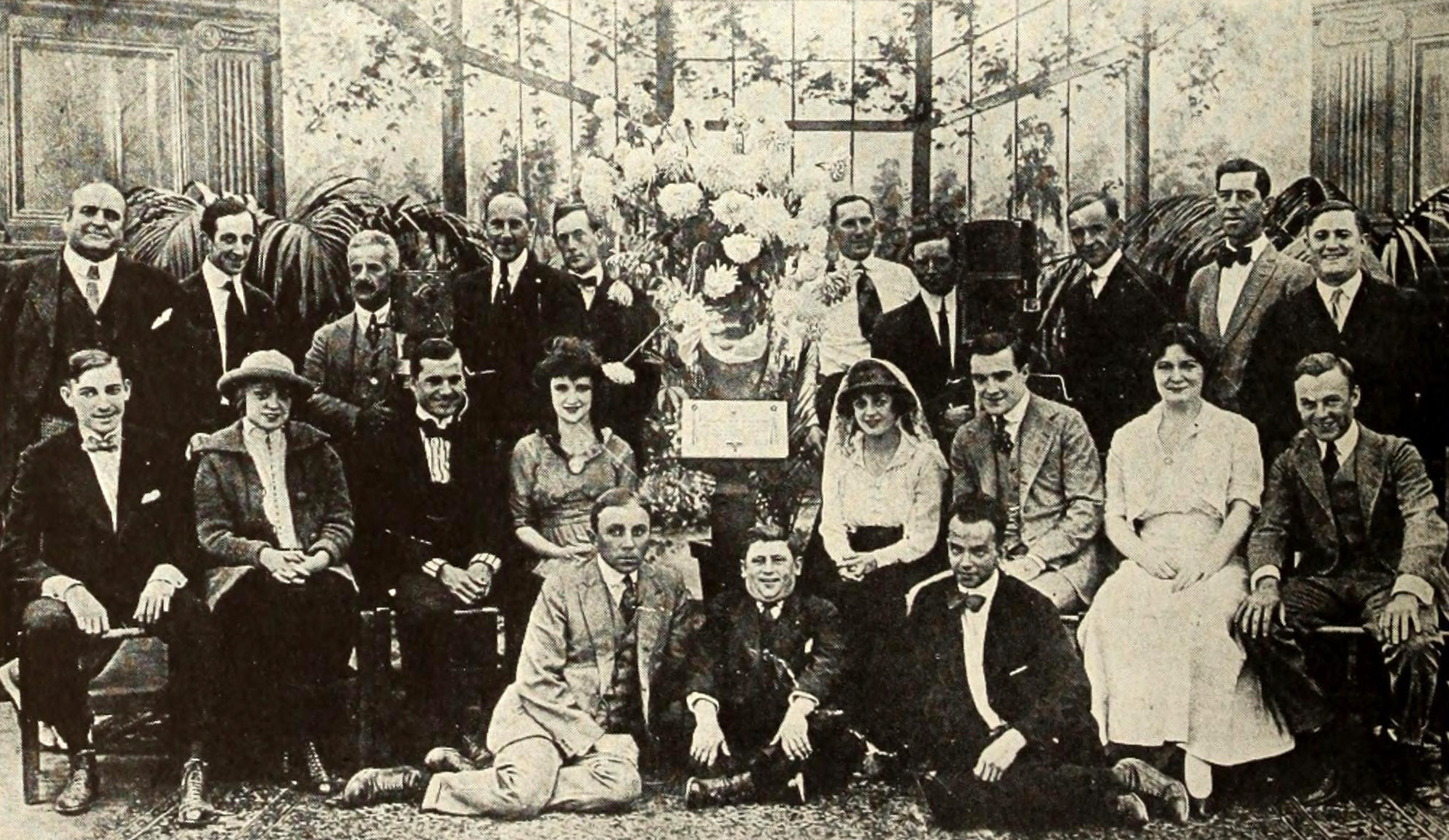 The troop of Christie Film Company. Standing, left to right: Harry Rattenbury, George French, Anton Nagy (cameraman), Al Christie, Eddie Barry, Charles Christie, unidentified cameraman, Horace Davis, unknown, and Mr. Lyons. Seated: Lee Moran, Ukulele Jane, Edie Lyons, Betty Compson, Billie Rhodes, Ray Gallagher, Stella Adams, and Neal Burns. On the floor: Joseph Janecke, Gus Alexander, and unknown.